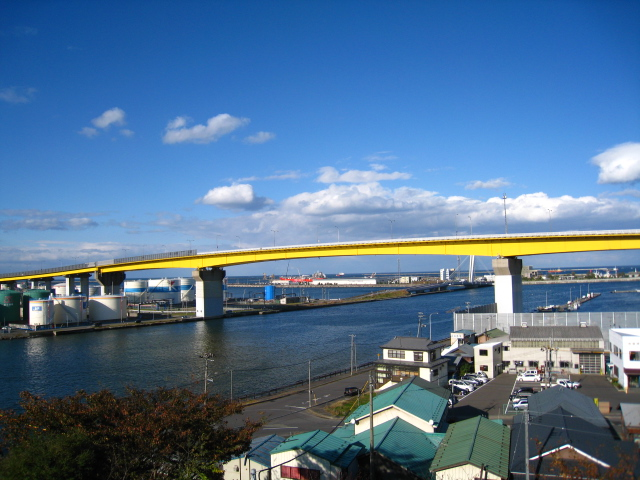 Hachinohe Ohashi in Hachinohe city Aomori,Japan